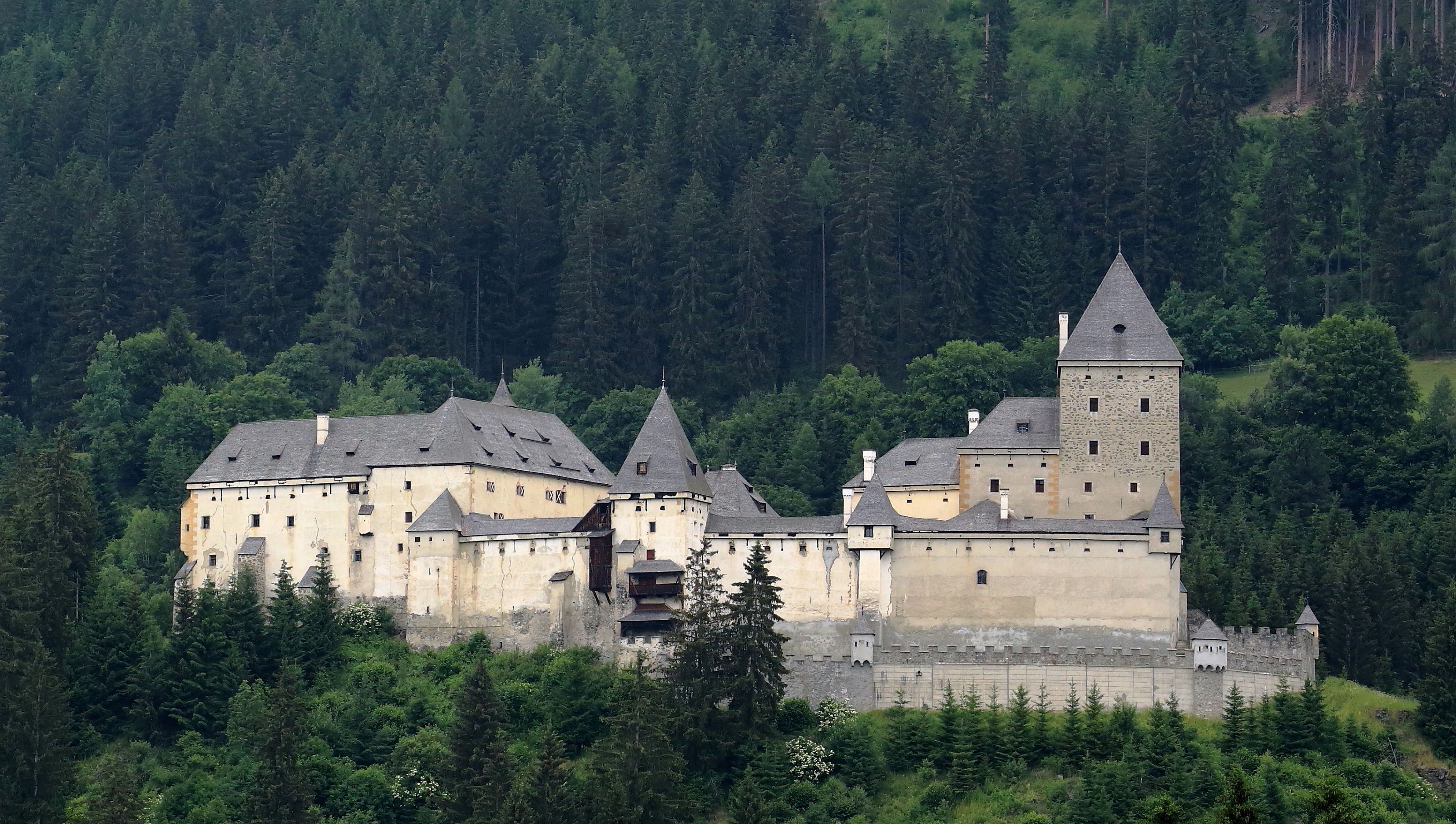 SE face of Moosham Castle in municipality of Unternberg, Salzburg.